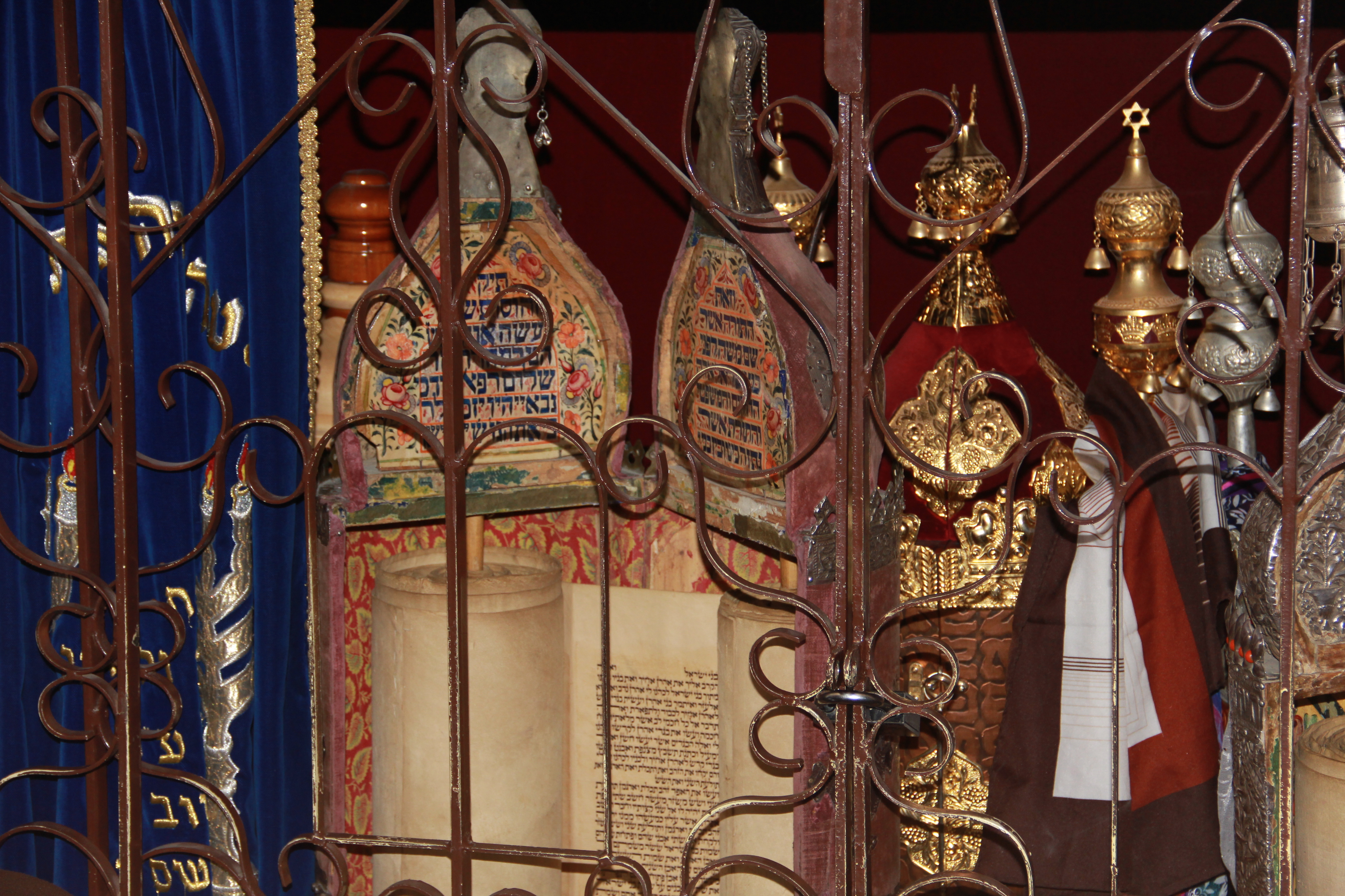 Torah scrolls from the Sephardic exiles at the historic Avraham Avinu synagogue in Hebron.